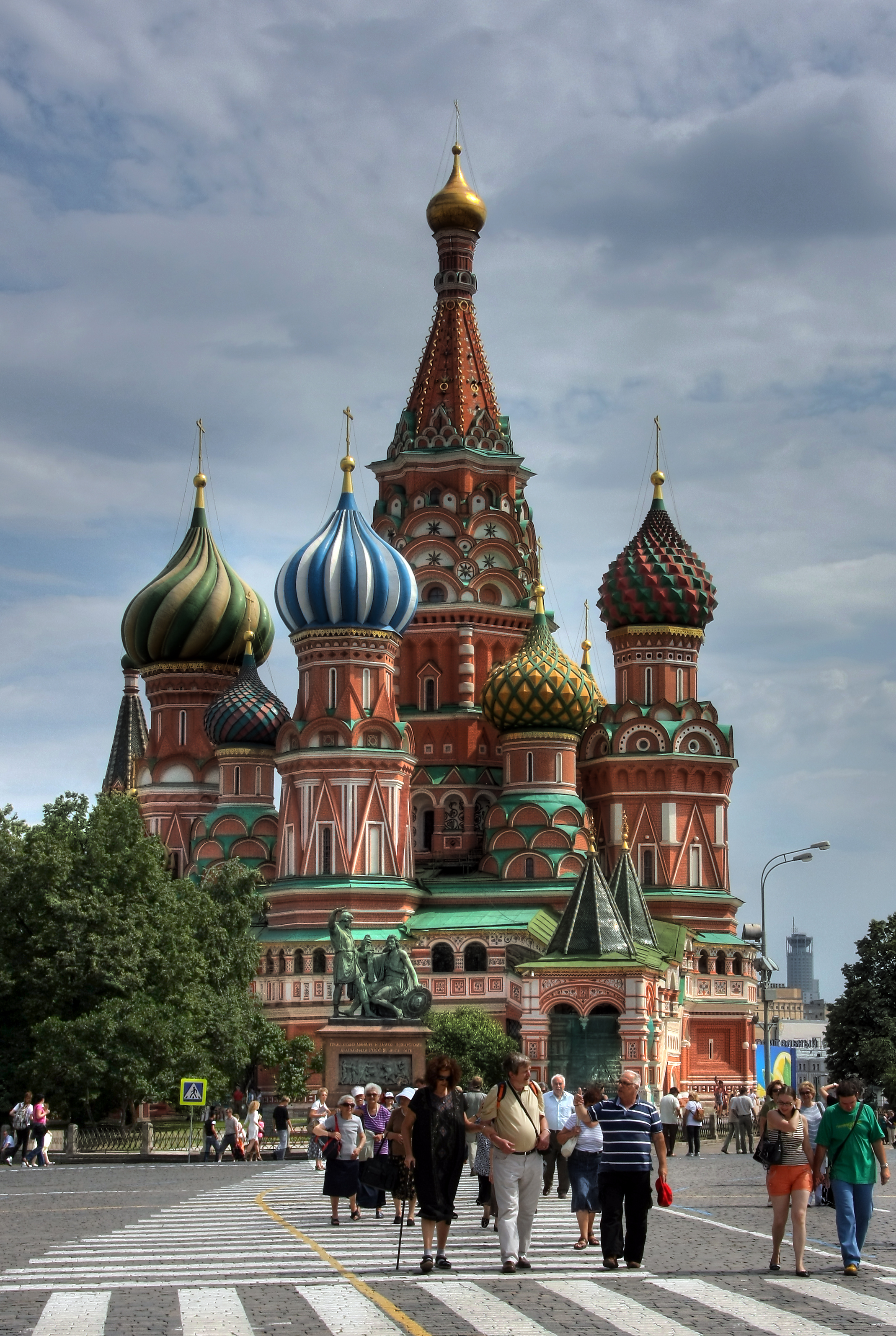 Saint Basil's Cathedral on the Red Square in Moscow. The picture has been produced by tonemapping, based on three exposures.